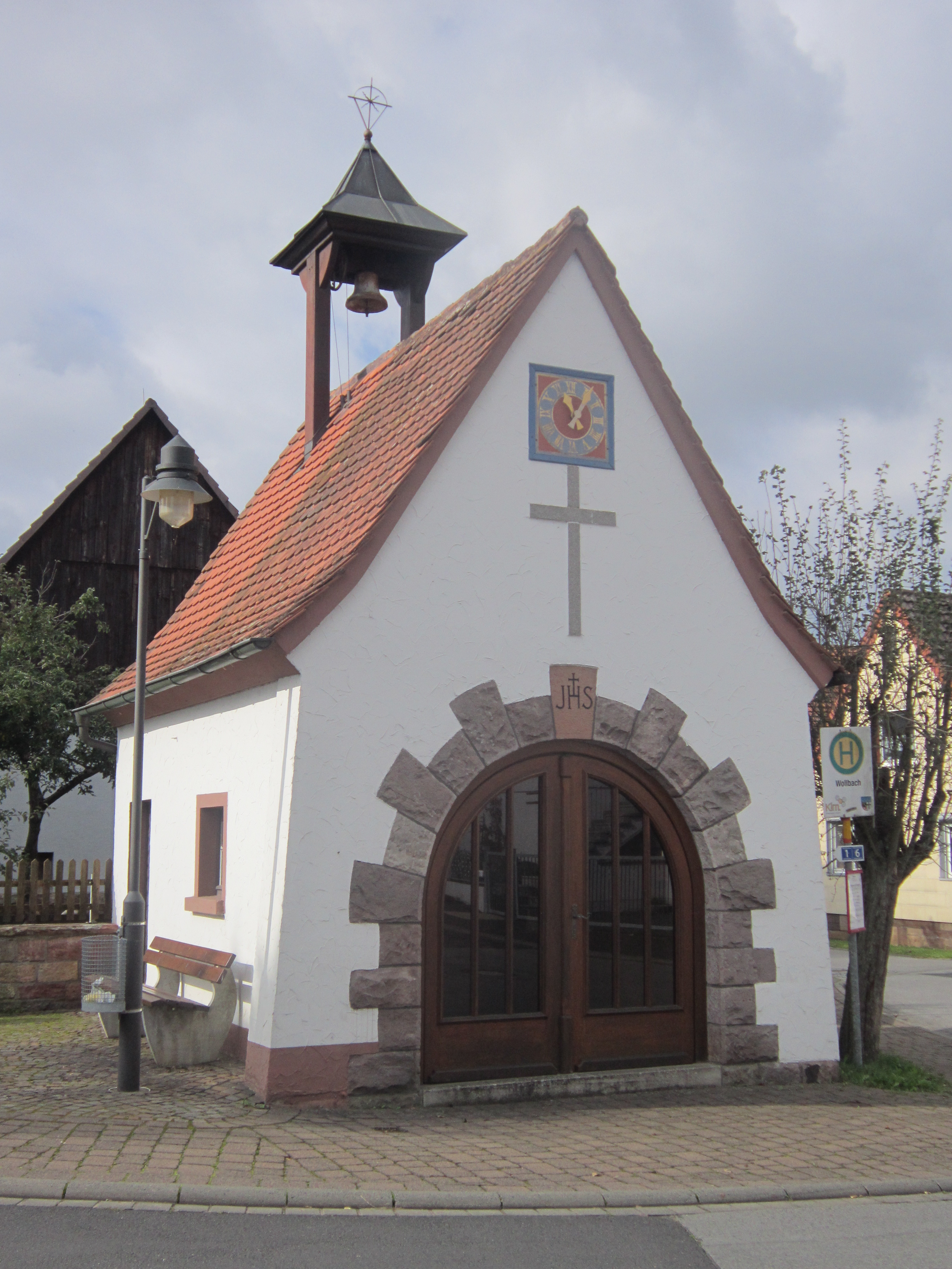 "Glöckle" Chapel in Wollbach, a quarter of the German town of Burkardroth in Lower Franconia (Bavaria).